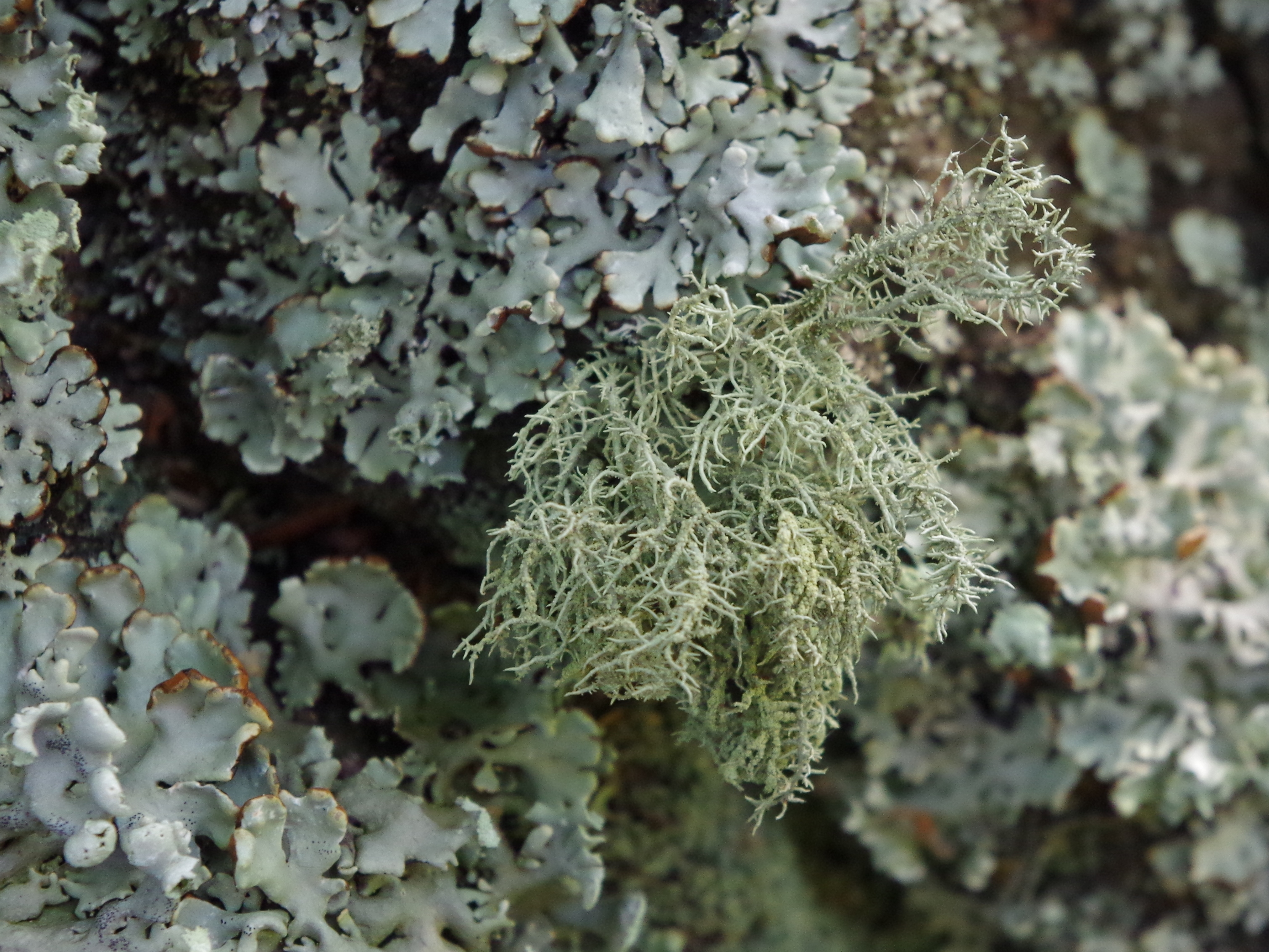 Usnea hirta (and Hypogymnia physodes)